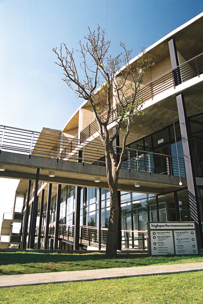 Highperformancentre of University of Pretoria, South Africa